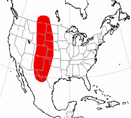 Range of Pseudoproceras based on fossil recovery